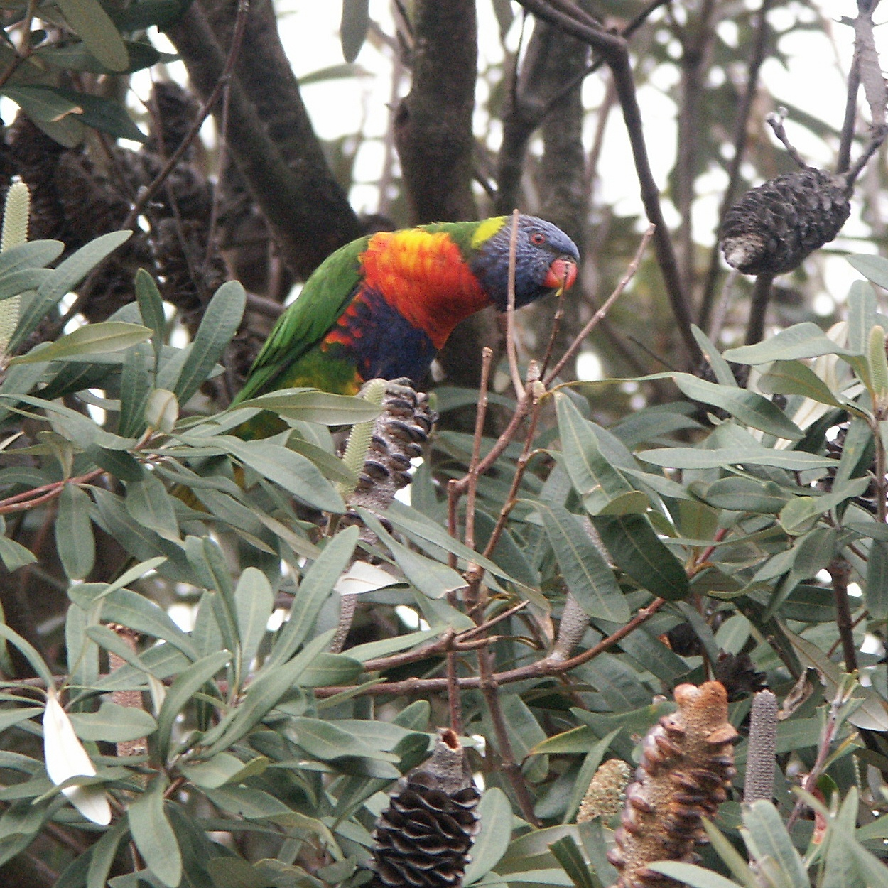 Rainbow Lorikeet Trichoglossus moluccanus feeding in a banksia tree in our front garden in Chelsea, Victoria, Australia.